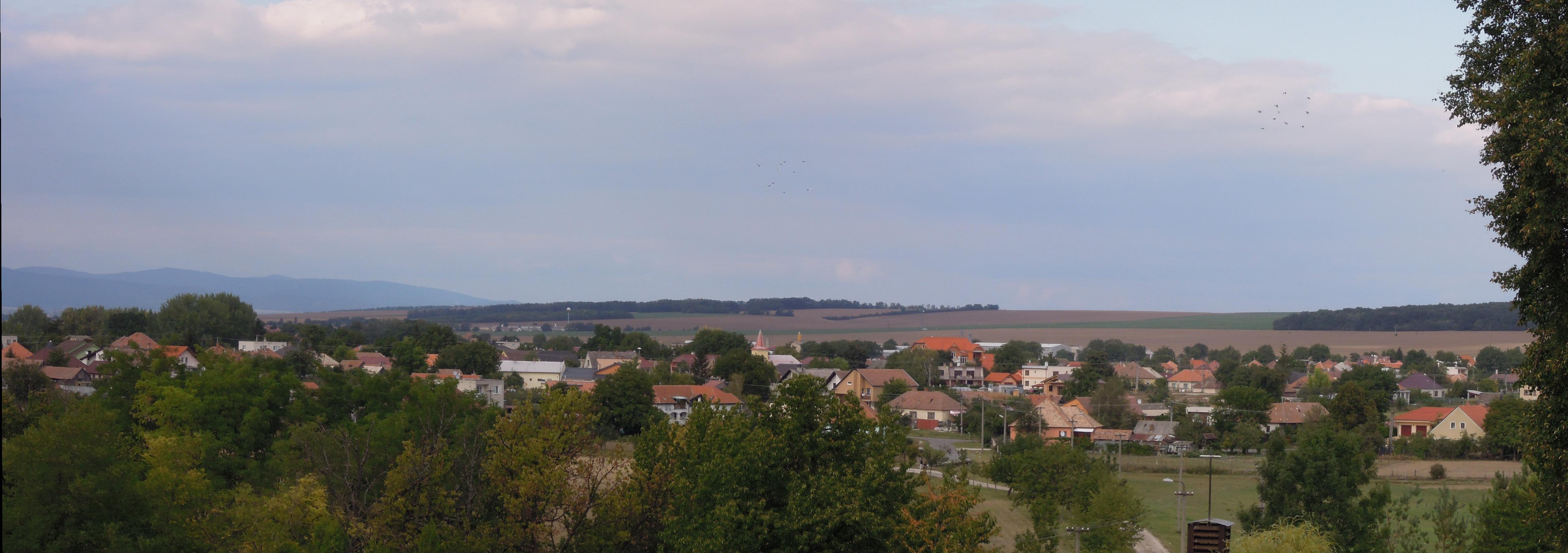 Panorama of the Čab village, view from the south.